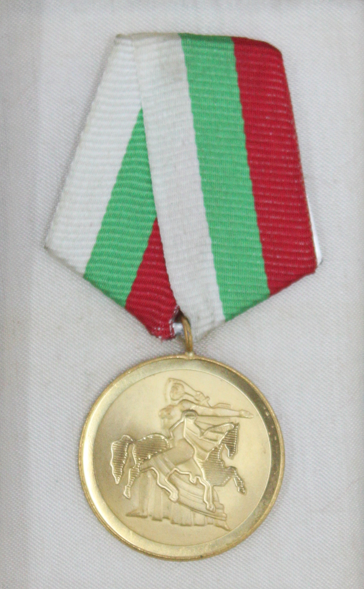 Historic Museum Ivailovgrad, Bulgaria